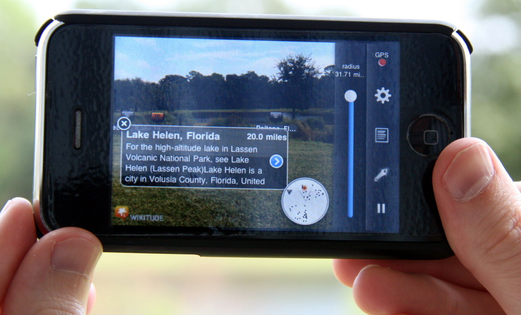 iPhone using the Wikitude application, demonstrating an example of Augmented Reality